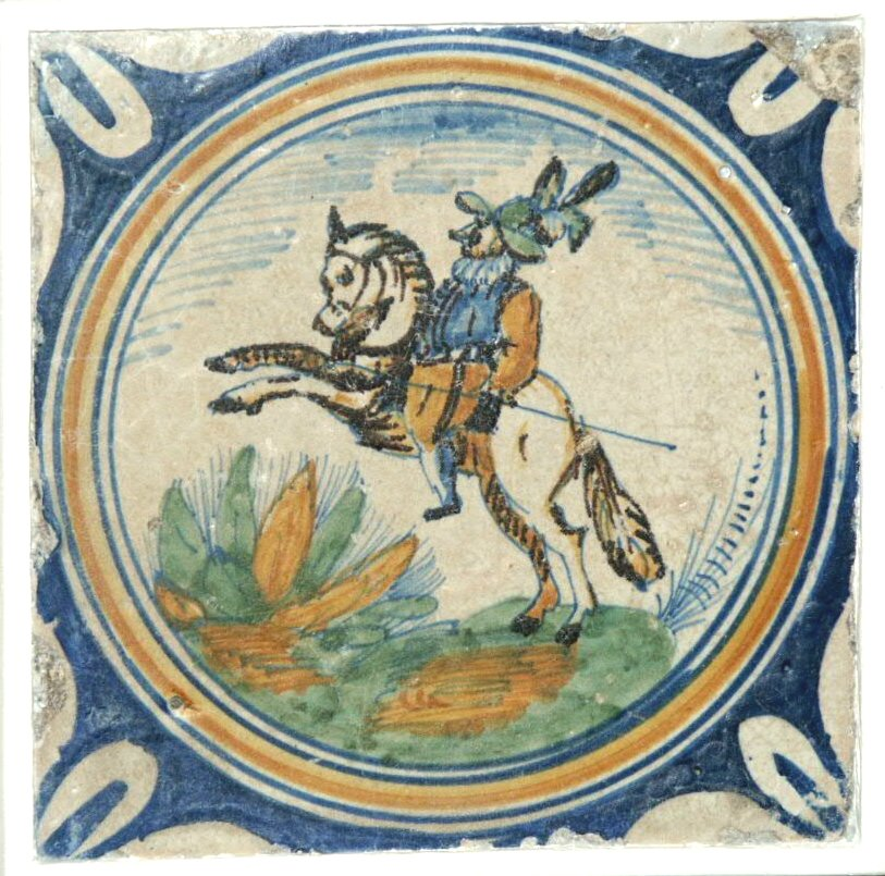 Decorated tile showing a man on horseback.